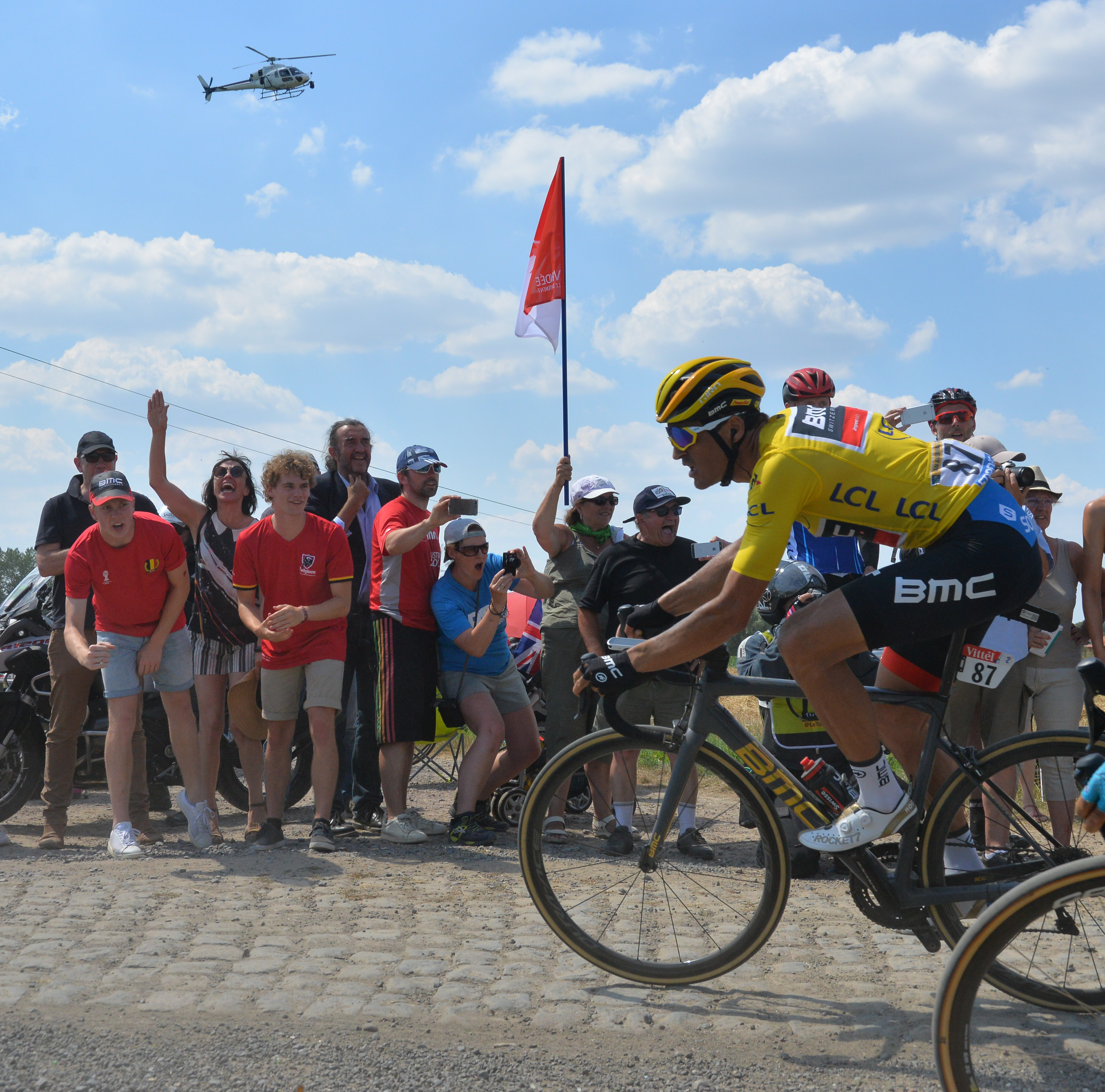 2018 Tour de France – stage 9 sector 9